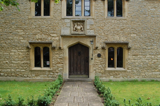 School House, Church Row, Thame, Oxfordshire. Built in 1569 as the original building of Thame Grammar School, now called Lord Williams's Grammar School. Over the door are carved the arms of Lord Williams.